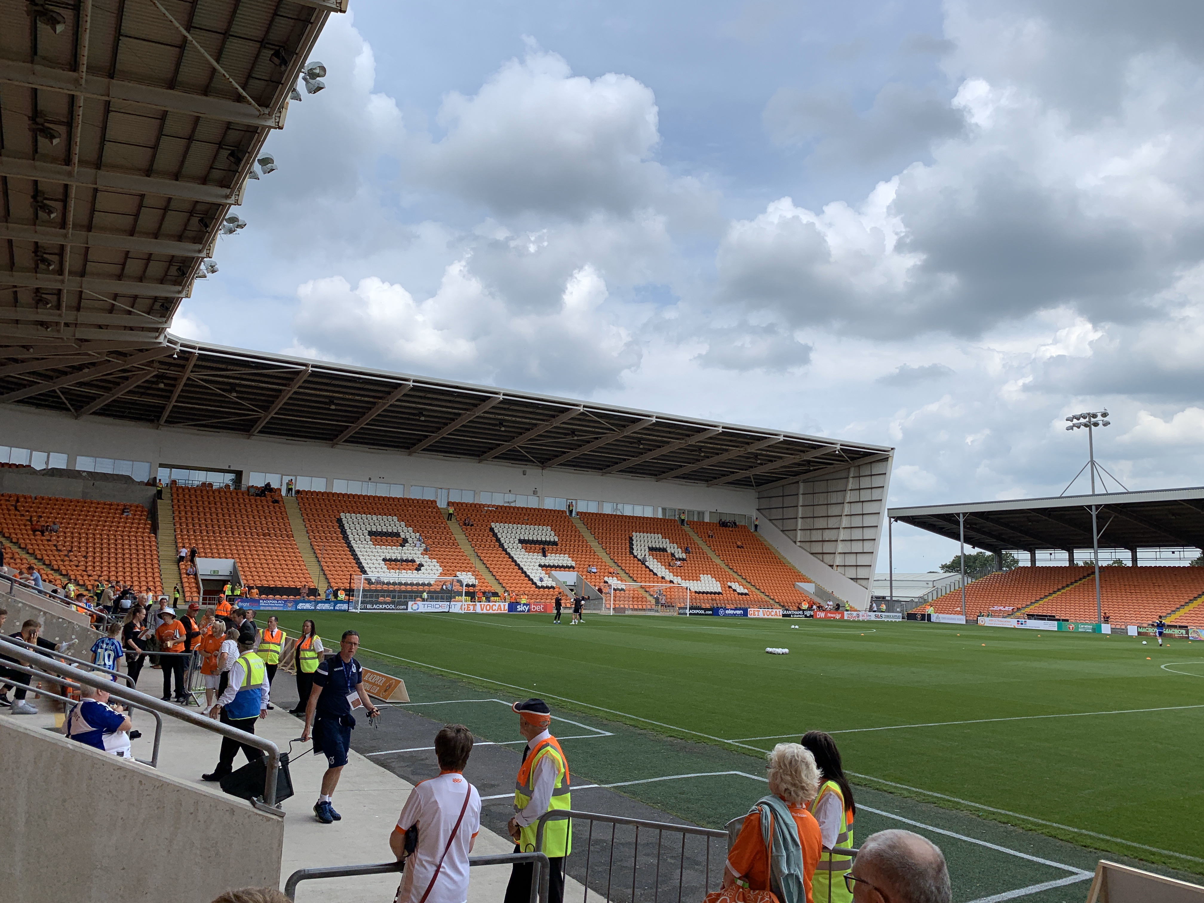 The north stand at Bloomfield Road.